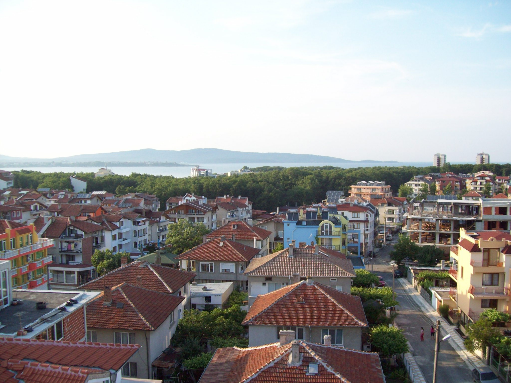 Eastern view from hotel Kiten Beach